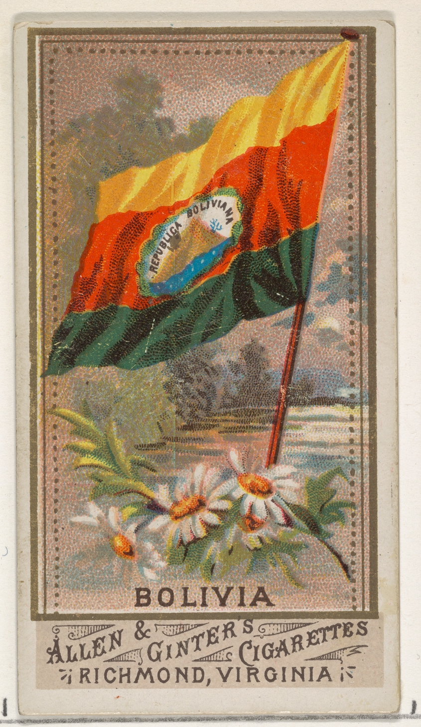 Print; Prints